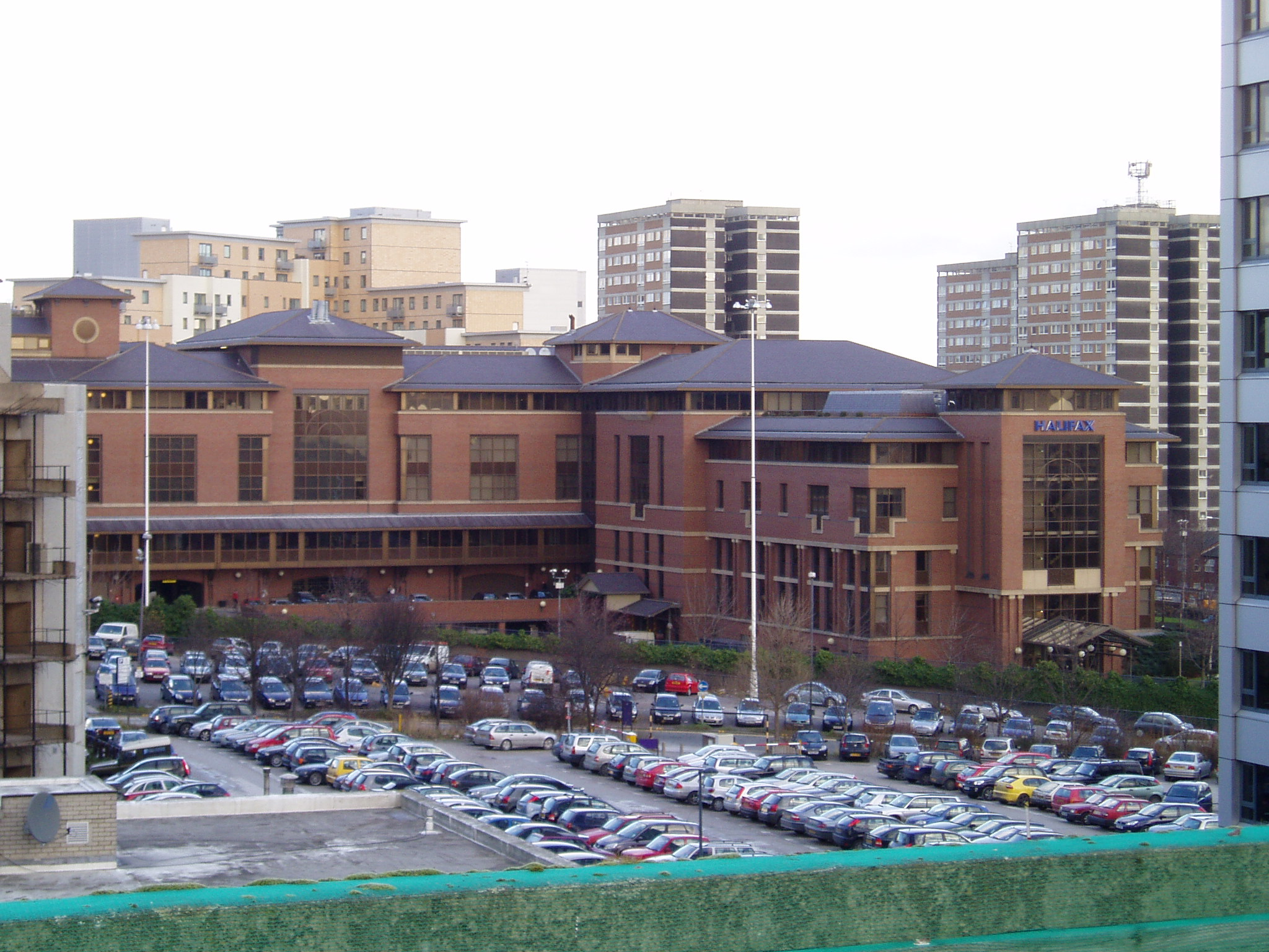 Photograph of HBOS offices in Leeds taken by Eric Carter